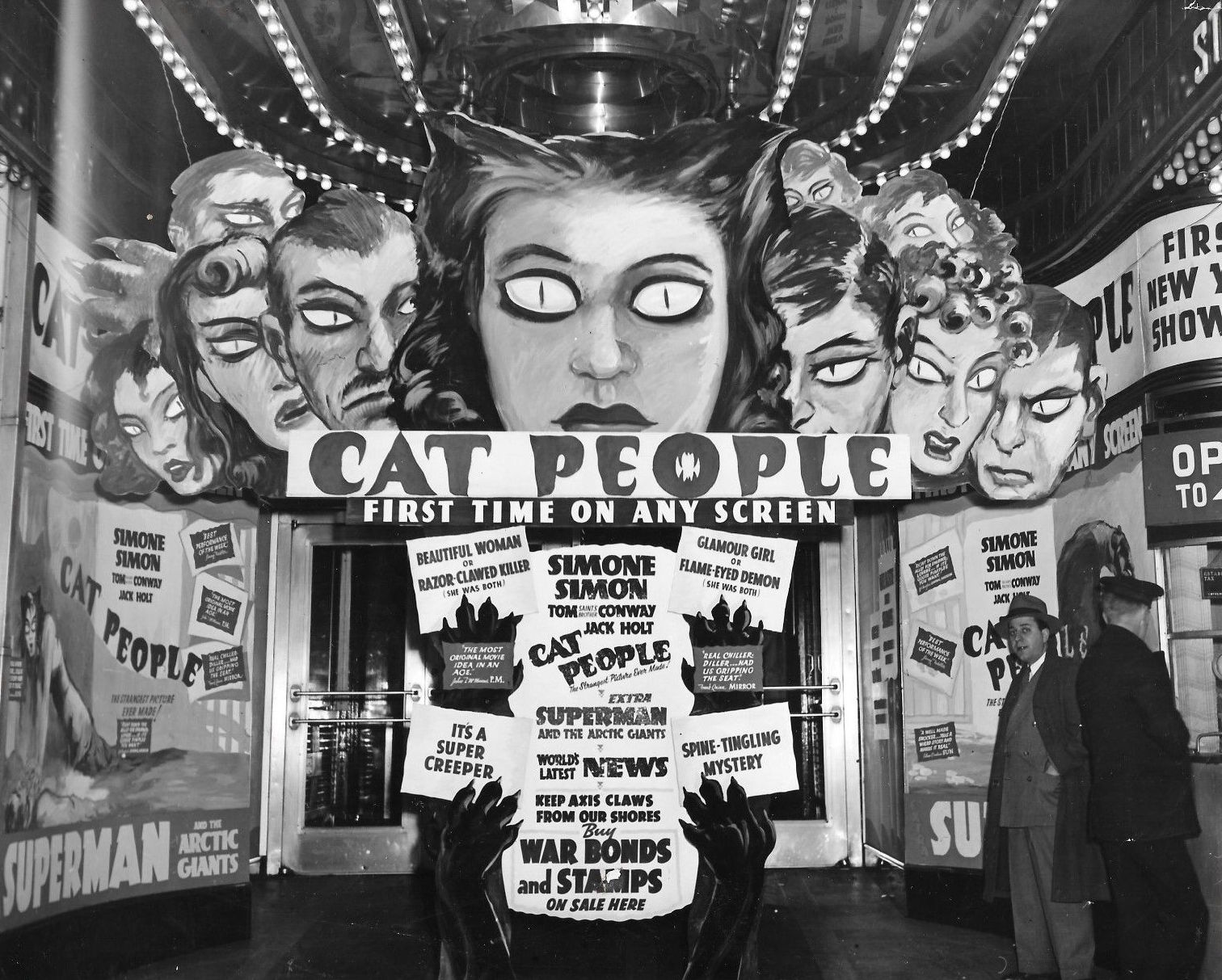 Advertisements for Cat People at a film theater entrance for the premiere in New York City